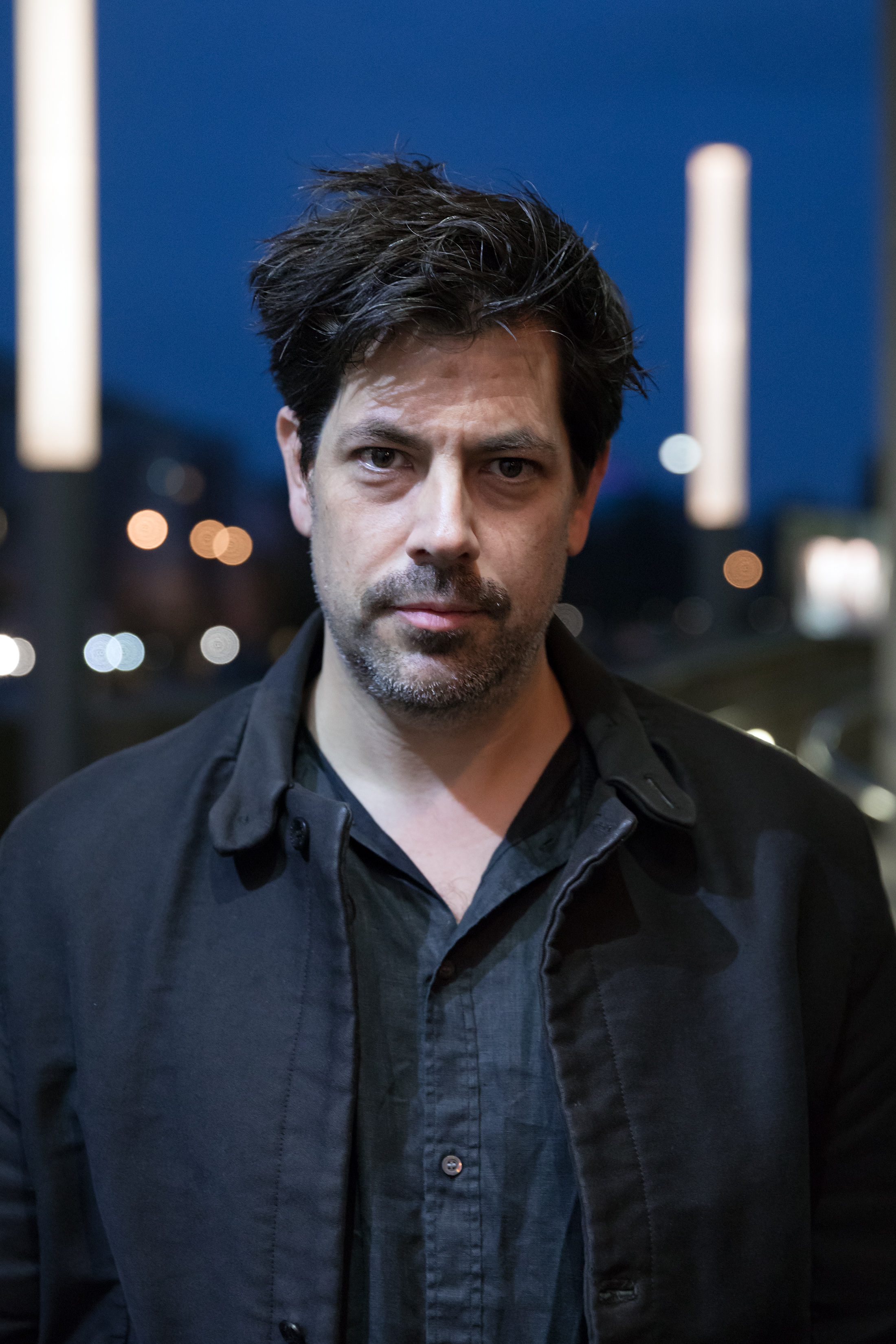 Nicolas Wackerbarth (Casting) at the Vienna International Film Festival 2017 (Urania, Vienna, Austria).